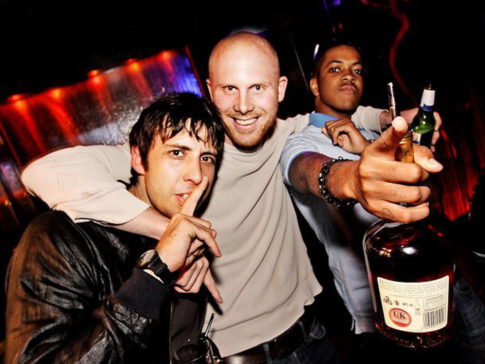 Rappers Example and Chip pictured with Matt LoveDough in 2012 at Tup Tup Palace nightclub, Newcastle upon Tyne, UK.